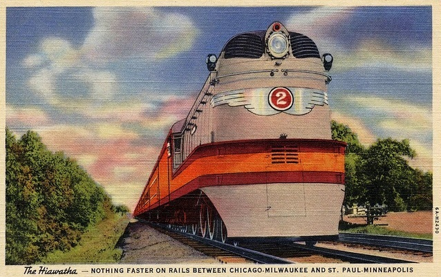 Milwaukee Road's streamlined class A steam locomotive heading "The Hiawatha" nothing faster on rails